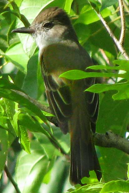 A difficult to identify bird, but probably an immature Pachyramphus major.